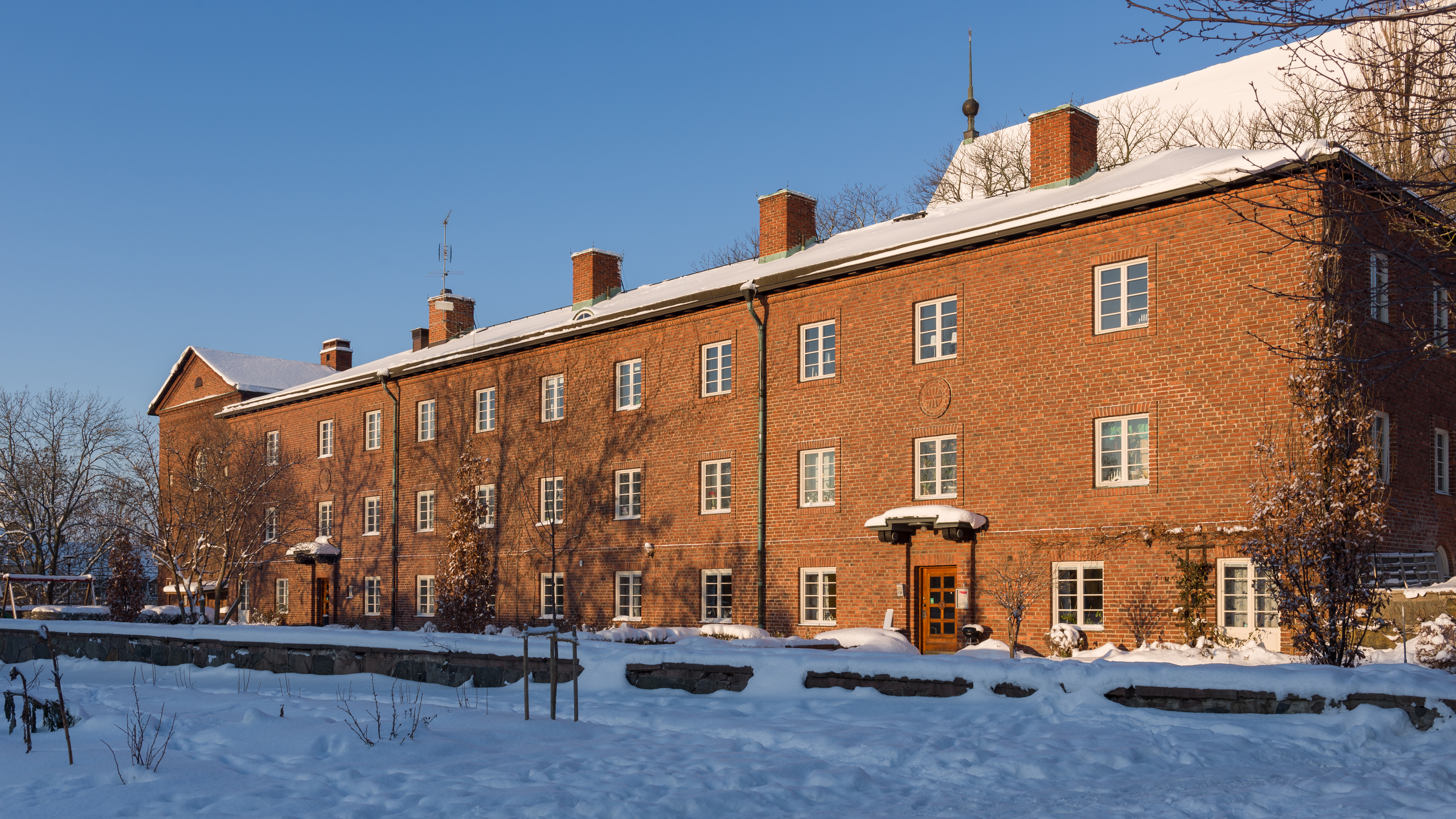 Högalid parish center, Södermalm, Stockholm. Built next to Högalid church. Högalid parish, Diocese of Stockholm, Church of Sweden. Architects: David Dahl and Ivar Tengbom.